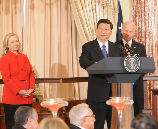 Mar 14, 2012，Secretary Clinton and Vice President Biden hosted a lunch in honor of Vice President of the People's Republic of China, His Excellency Xi Jinping, at the Department of State.